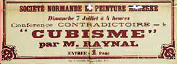 Society of Modern Painting, Contradictory Conference on "Cubism" by M. Raynal